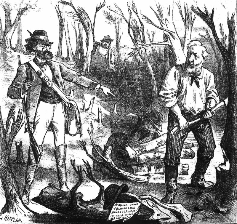 Carl Schurz dressed as a forest warden points accusingly at James Blaine who is chopping down a tree.